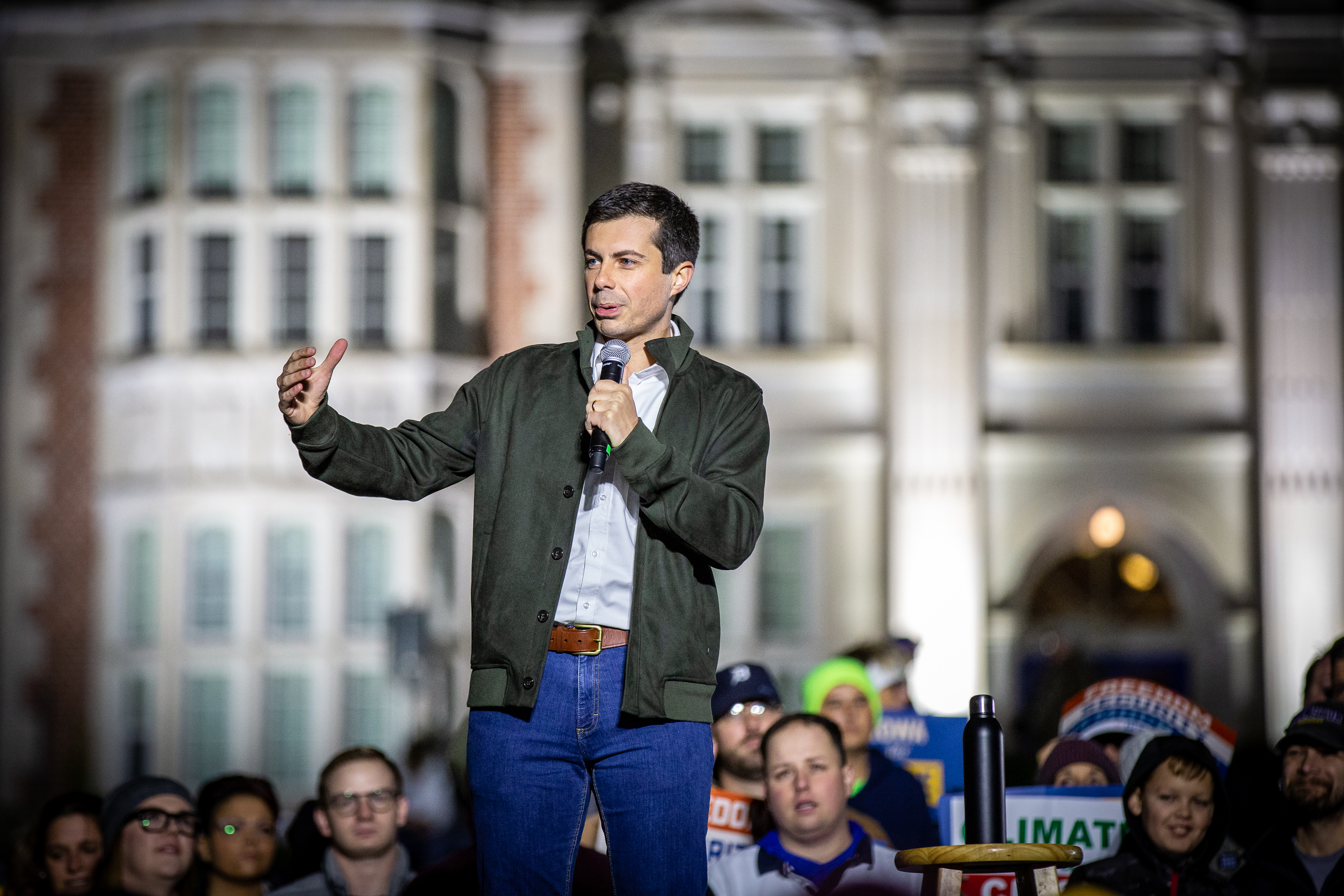 Mayor Pete Buttigieg held a town hall meeting for his presidential campaign on the front lawn of Roosevelt High School in Des Moines. More than 700 turned out on a crisp October night.